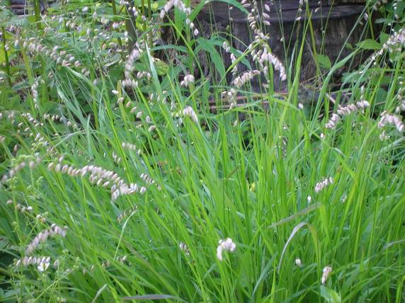 Melica nutans. Savinsky District of Ivanovo Oblast, Russia